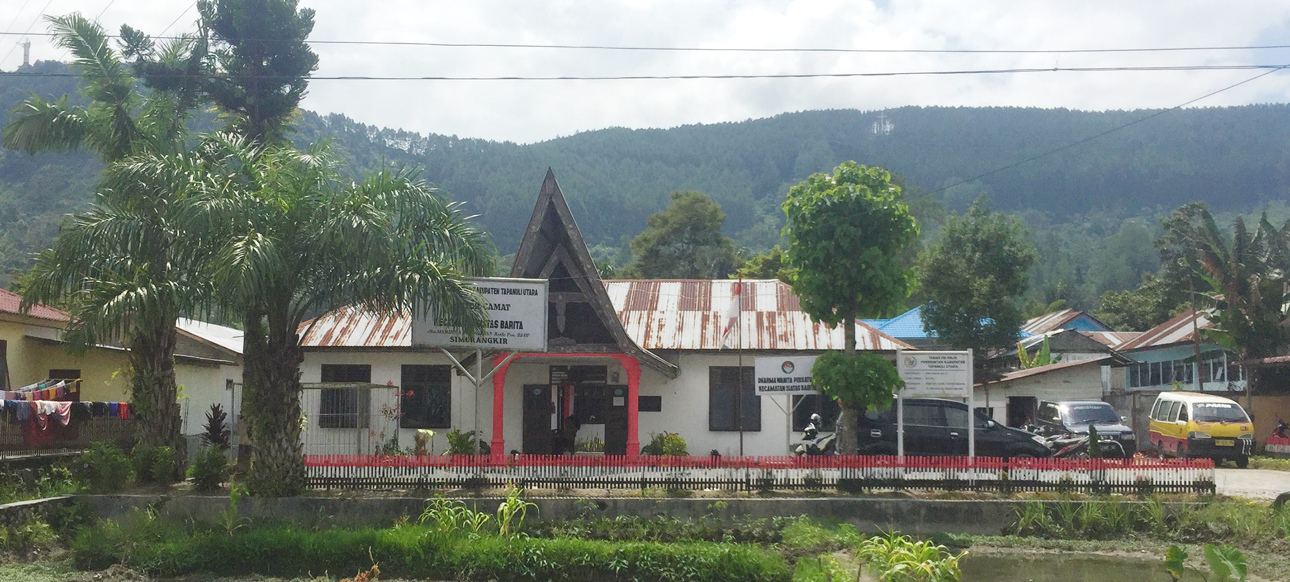 Office of Siatas Barita, Tapanuli Utara